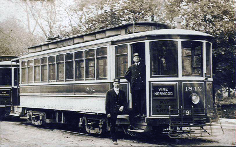 Two conductors stand beside a Cincinnati, Ohio streetcar on the 9 Vine-Norwood line c. 1910. The car traveled from 6th & Walnut downtown to Montgomery & Sherman in Norwood, Ohio.